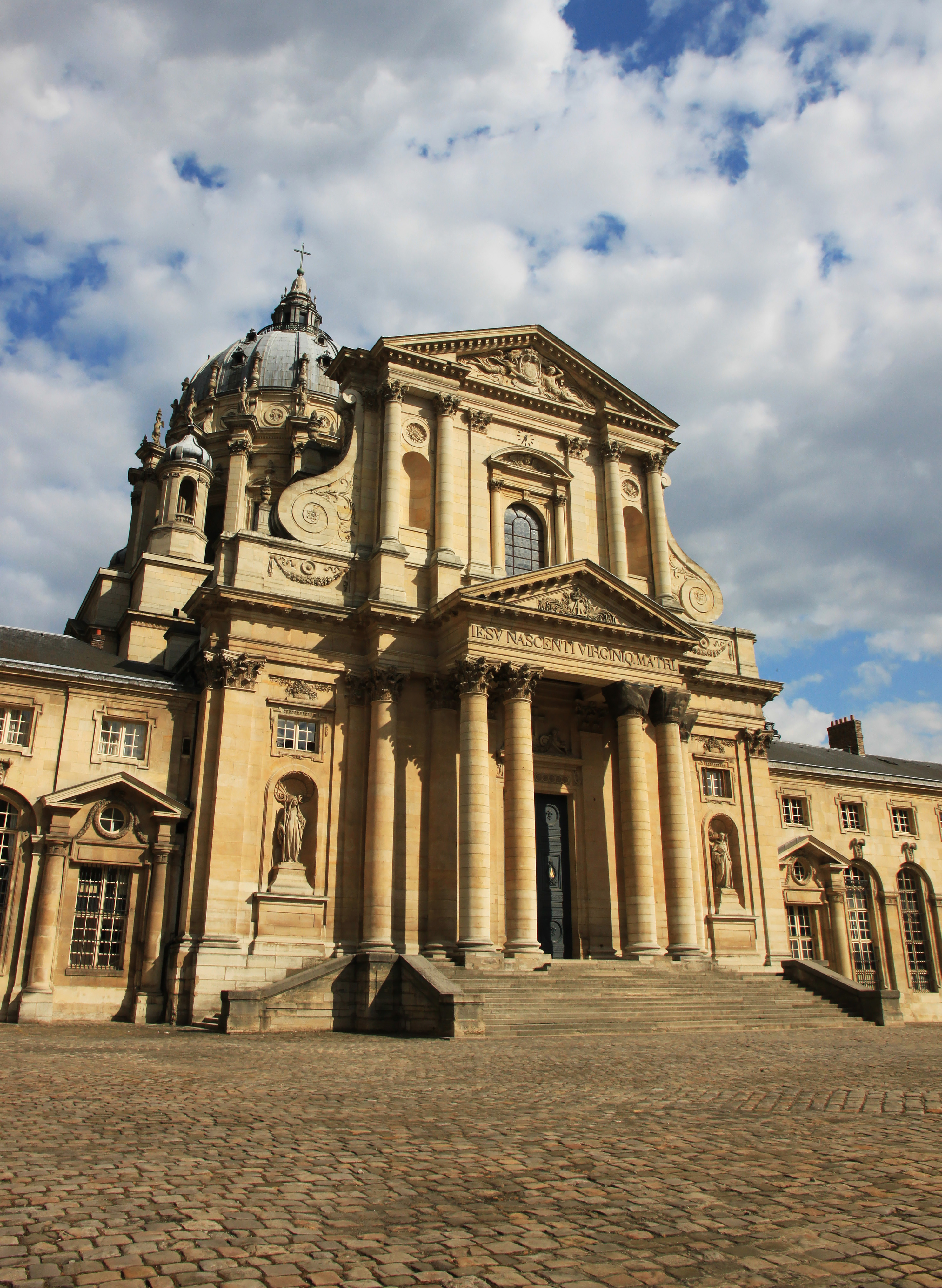 Church of the Val-de-Grâce, rue Saint-Jacques, Paris.